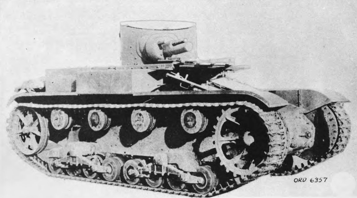 The Light Tank, T1E6, a U.S. Army light tank built in 1932 by further modification of the T1E4. The T1E6 was very similar to the T1E4, keeping its central-turret, rear-engined configuration, its suspension, and its gun, but the V8 engine used by all previous T1 versions had been replaced by a larger, more powerful V12. Here the driver's front hatch is open.